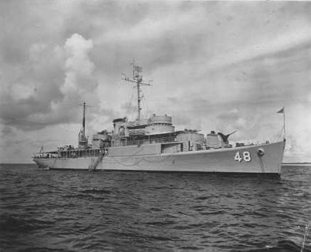 United States Navy seaplane tender USS Onslow (AVP-48) in the Pescadores